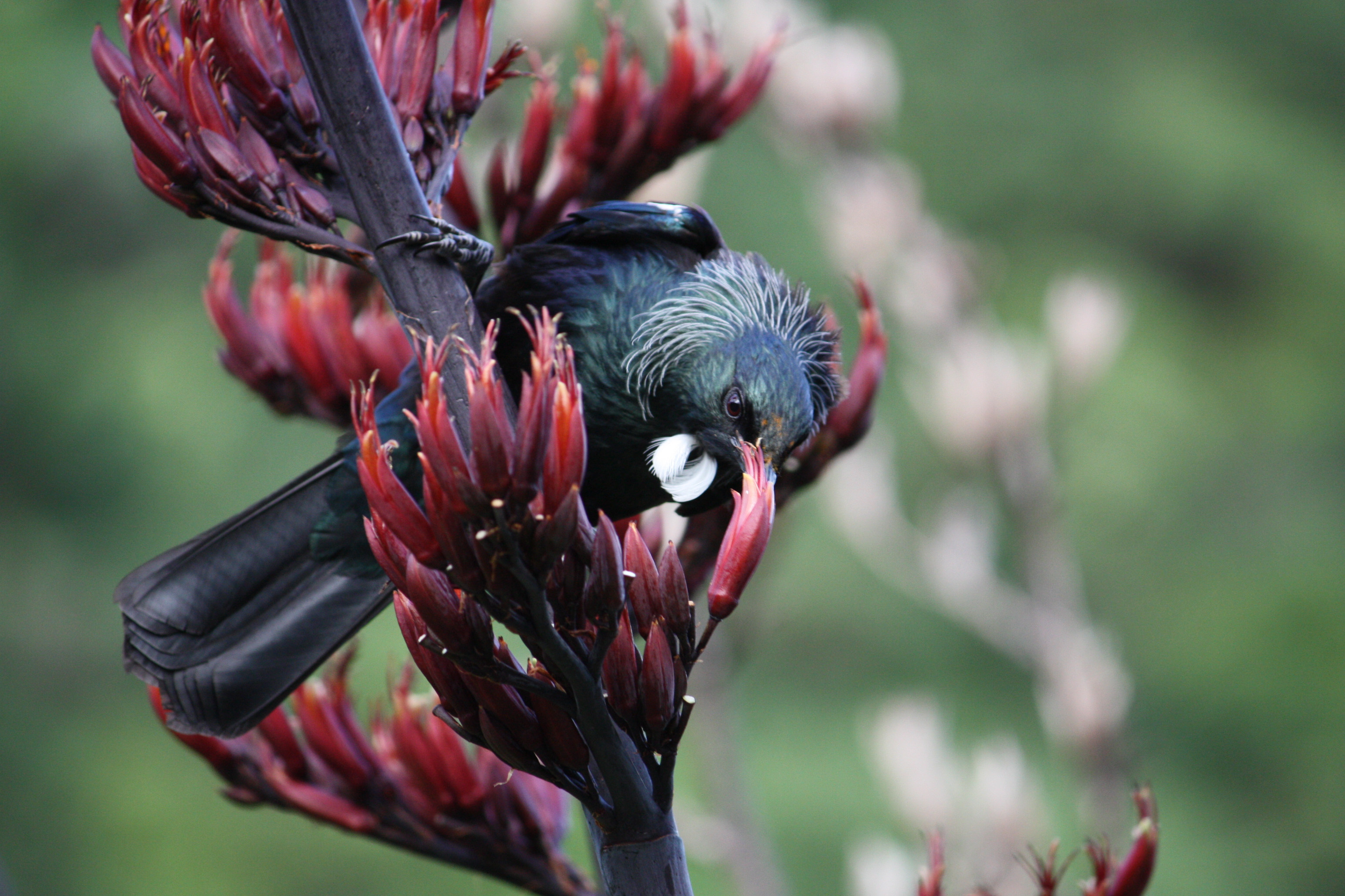 A New Zealand Tui eating the nectar from the flower of Phormium Tenax